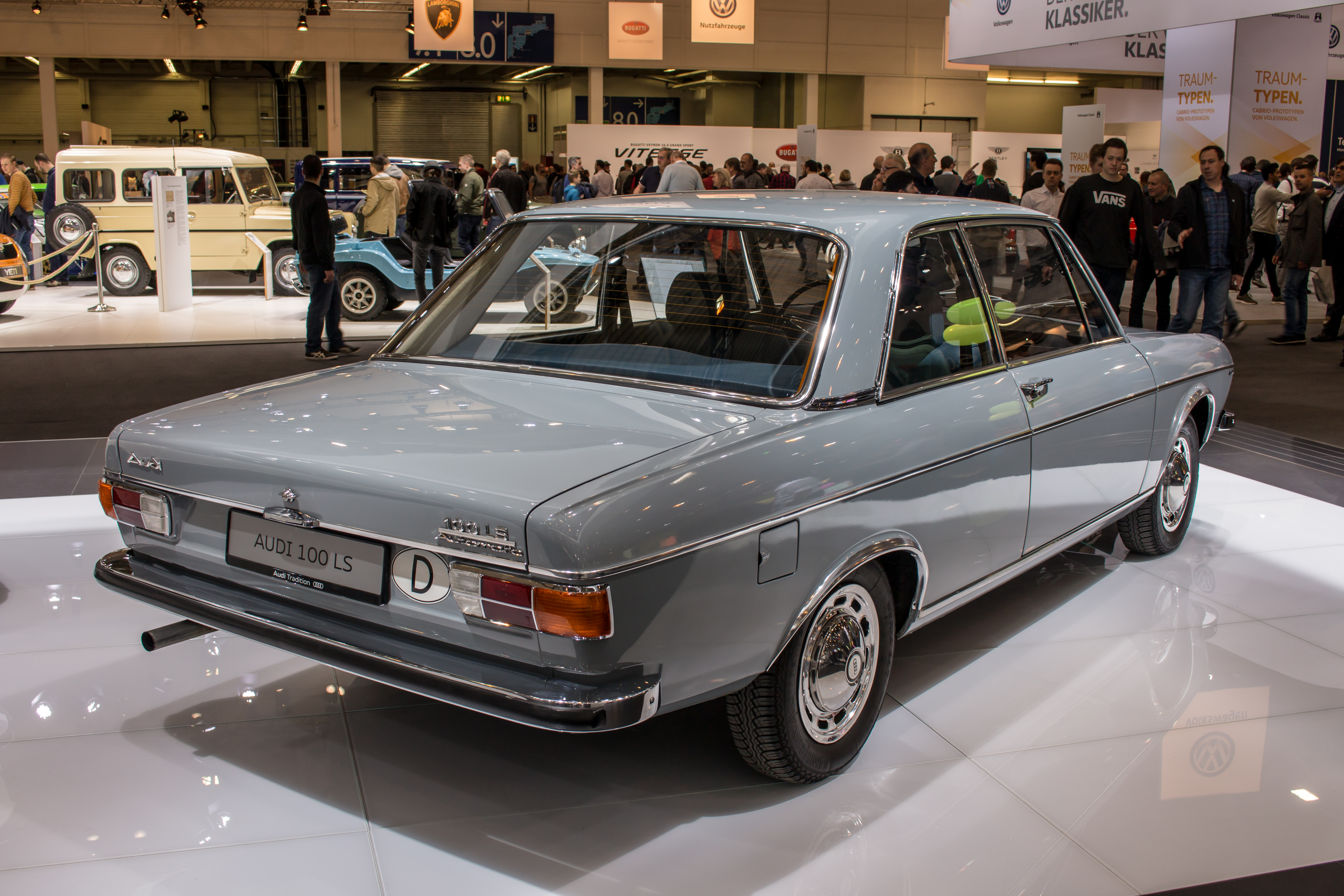 Techno-Classica 2018, Essen